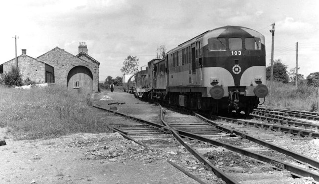 The weed spraying train, hauled by Sulzer locomotive no 103, at Kingscourt. The long-disused goods store is at middle left. The former passenger station is behind it.